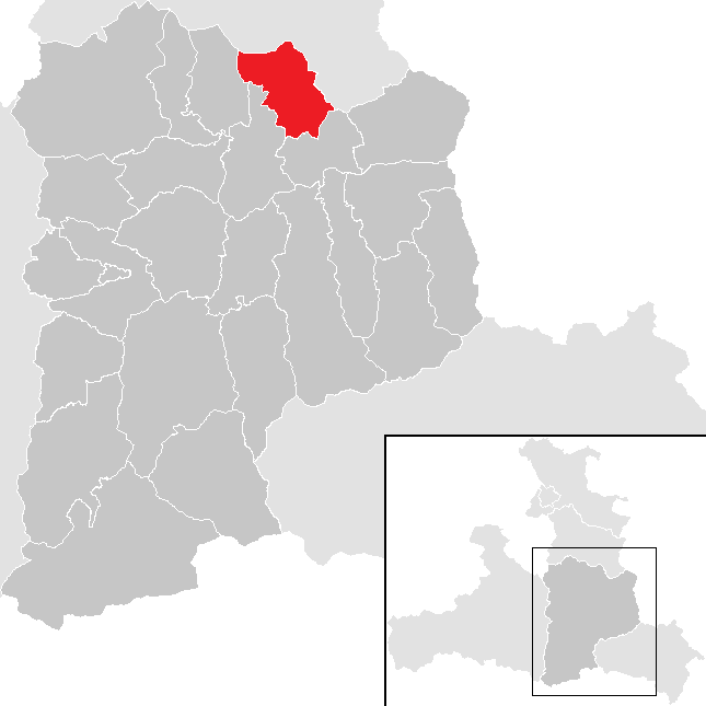 District Sankt Johann im Pongau